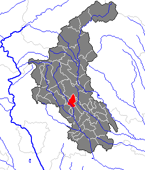 This map shows the area of the Gemeinde (municipality) Krottendorf in the Bezirk (district) Weiz, Styria, Austria.